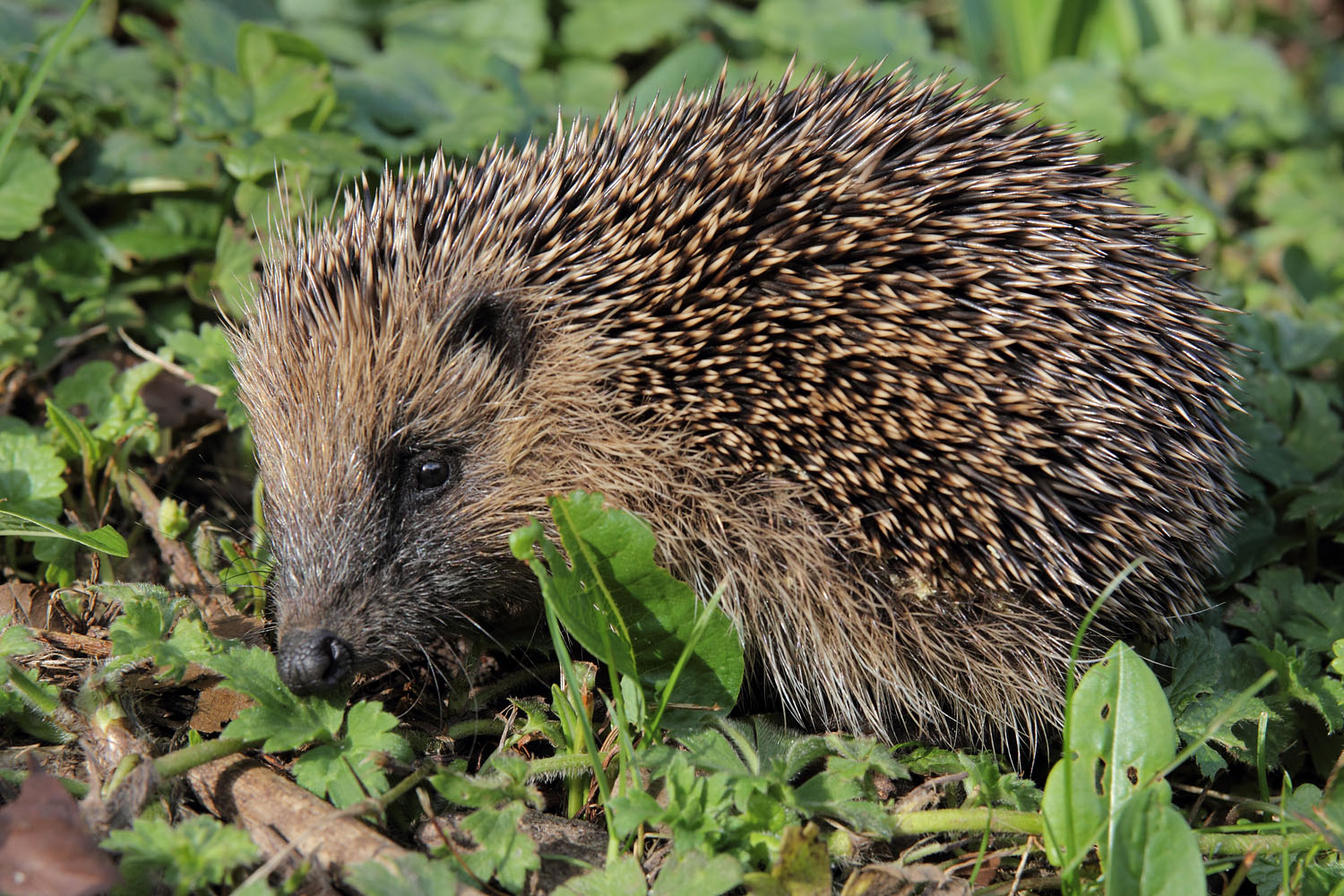 European or common hedgehog (Erinaceus europaeus)